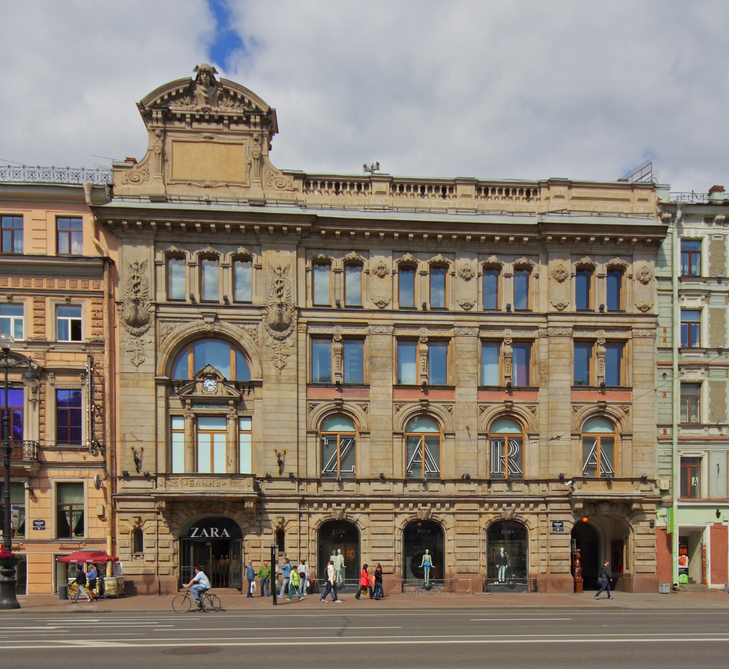 Saint Petersburg, Russia. Nevsky Avenue, house 62.